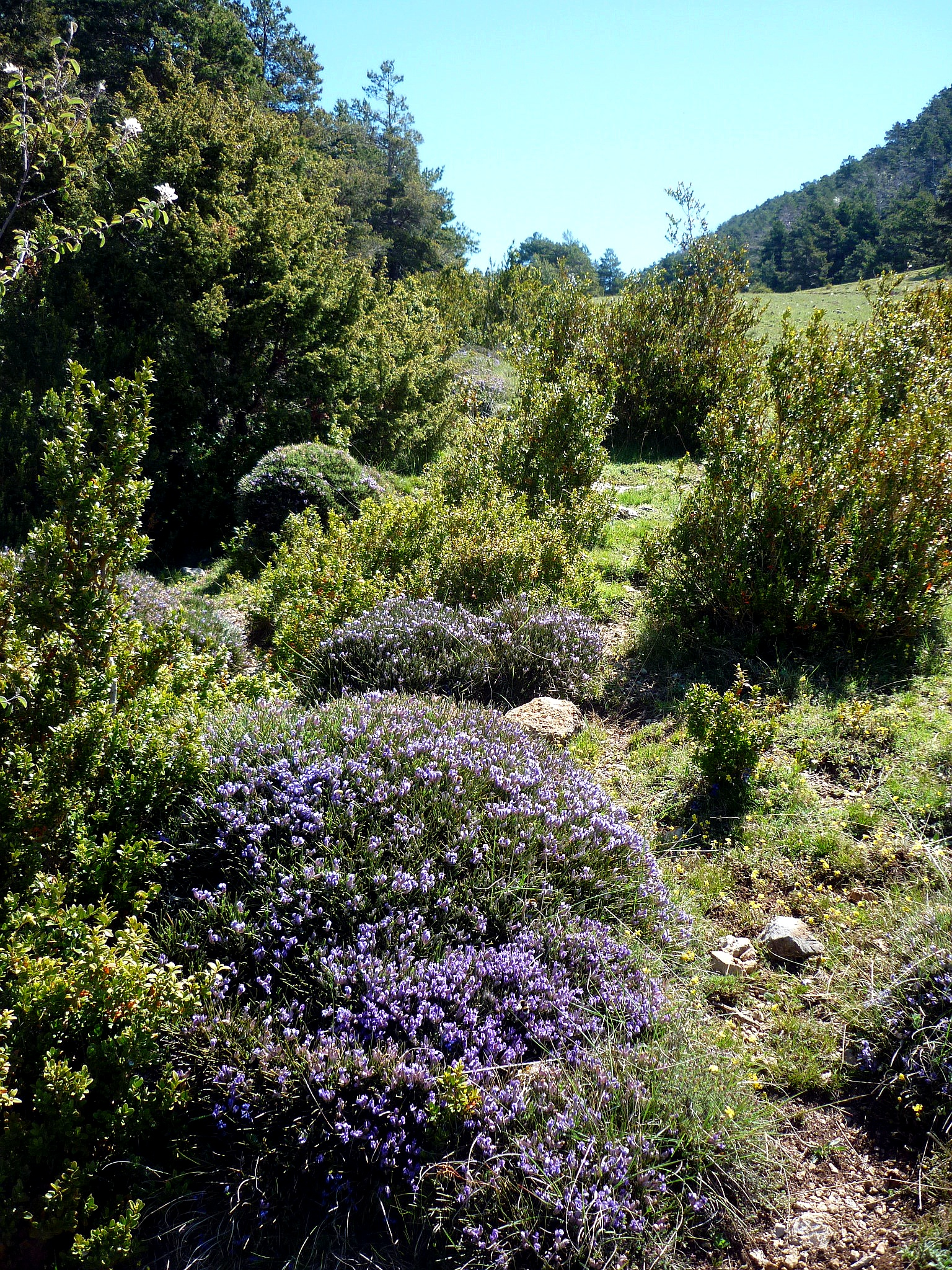 Erinàcea anthyllis. Near Roc de Galliner, in l'Alzina d'Alinyà (Alt Urgell-Catalunya). To 1.500 m. altitude